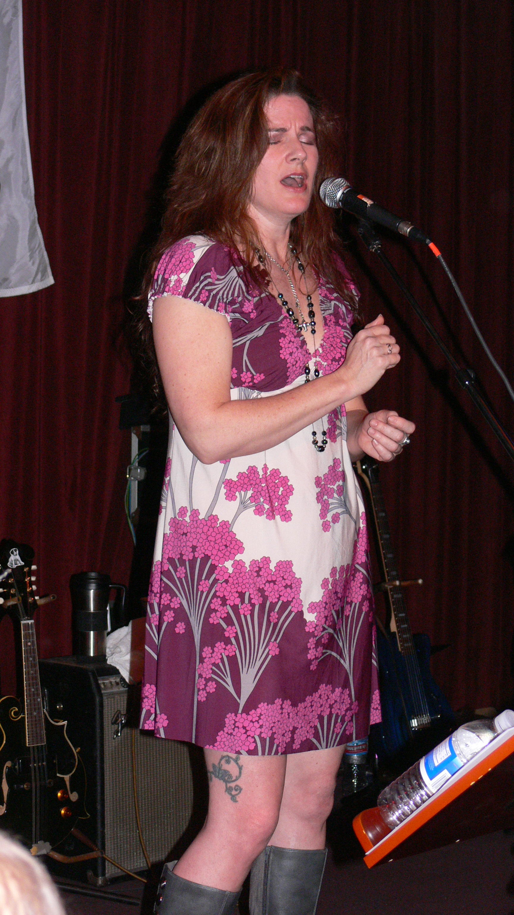 Description: Darby Gould performing with Jefferson Starship in Sebastopol, California